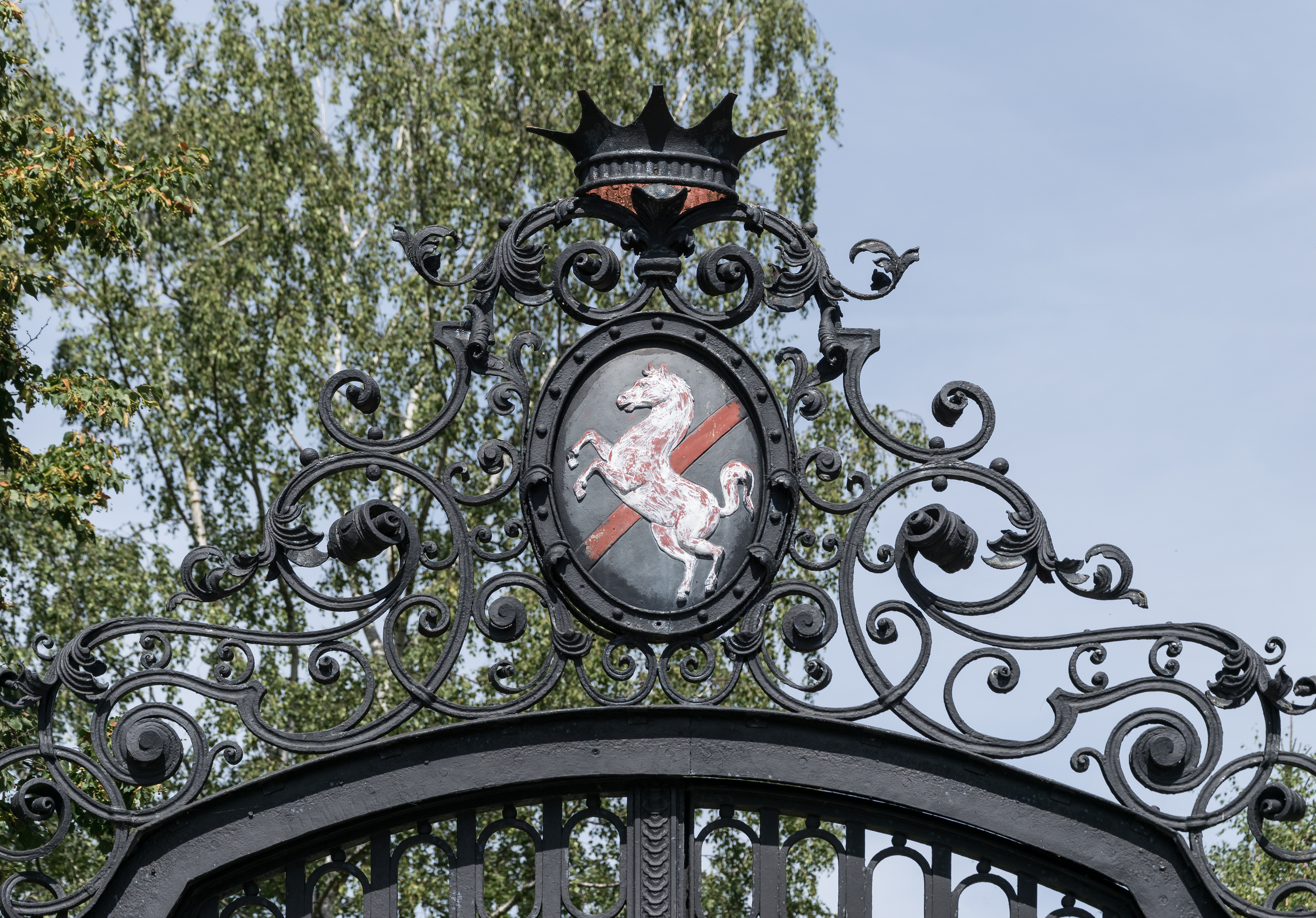 Park and palace in Jeleniów Wikidata has entry Q30048613 with data related to this item.